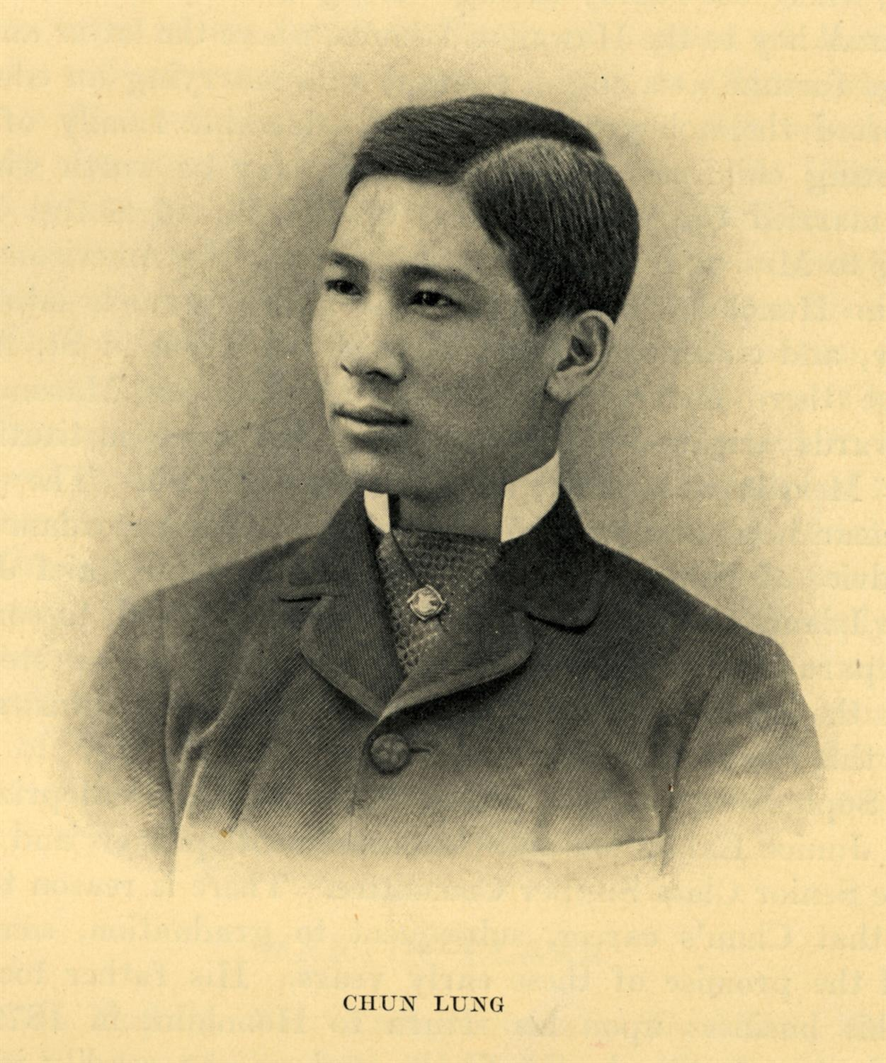 Chun Lung, Yale College Class of 1879.